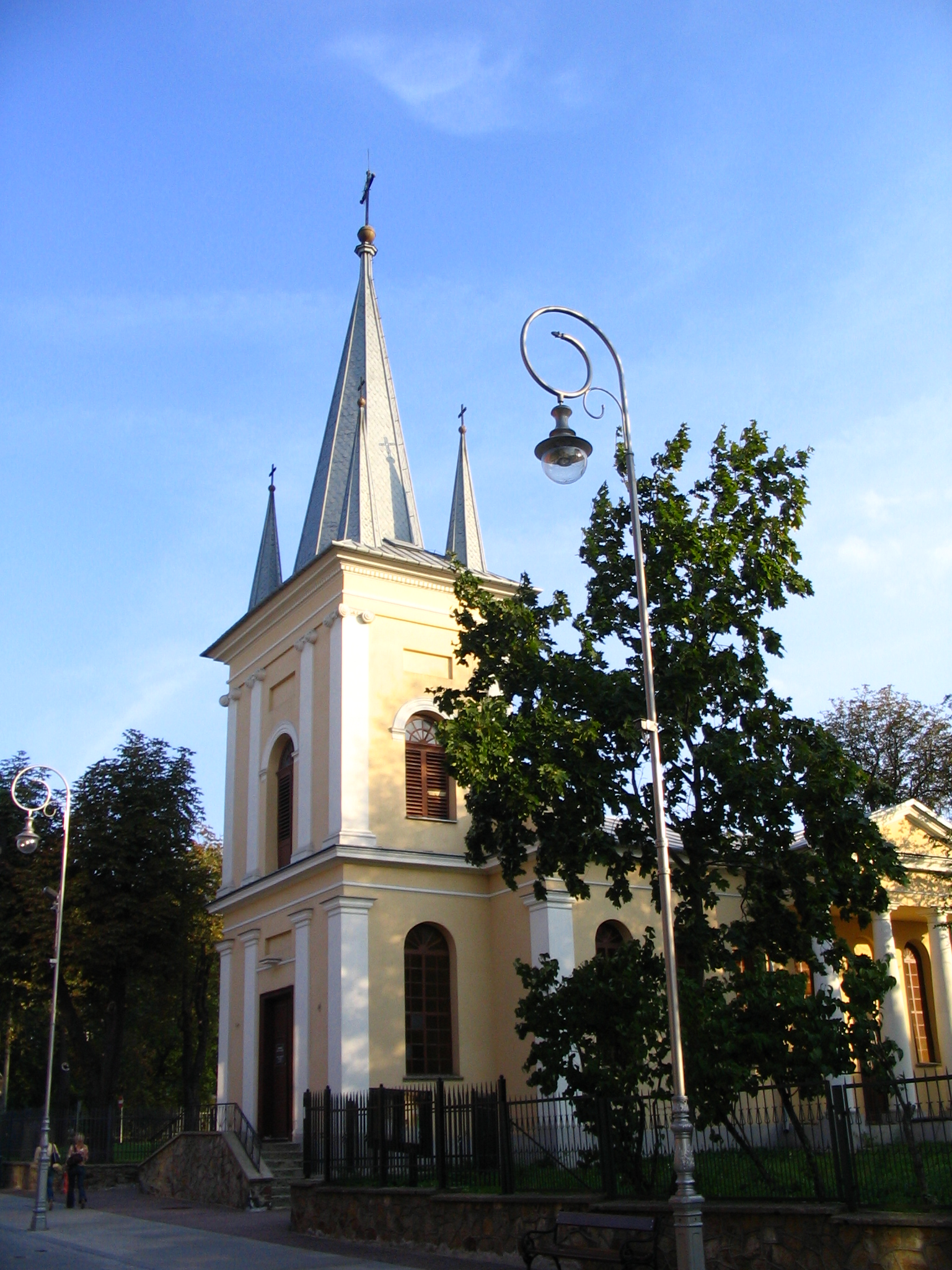 Ecumenical church in Kielce